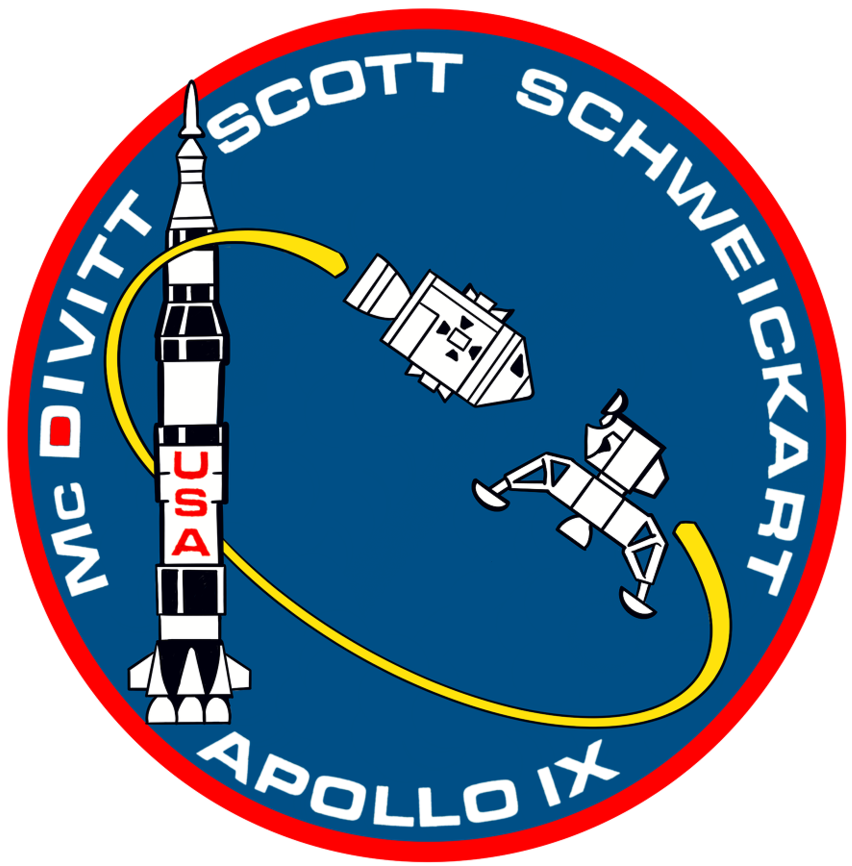 Apollo 9 official mission patch